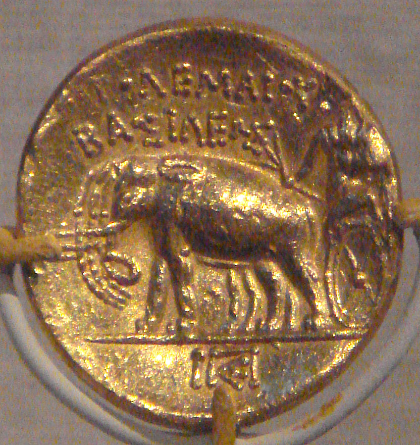 Ptolemy I Gold Stater Elephant Quadrigia Cyrenaica.Inscription: ptolemaioy-(ptolemaiou), basileos; Ptolemy, Basileus, "Ptolemy, King", for Ptolemy I. Another word sometimes found on Greek, or associated coins: Epi(ph)anous, "Manifested"-(Appeared). (A walking-legs hieroglyph, in Rosetta Stone Egyptian hieroglyphs.)